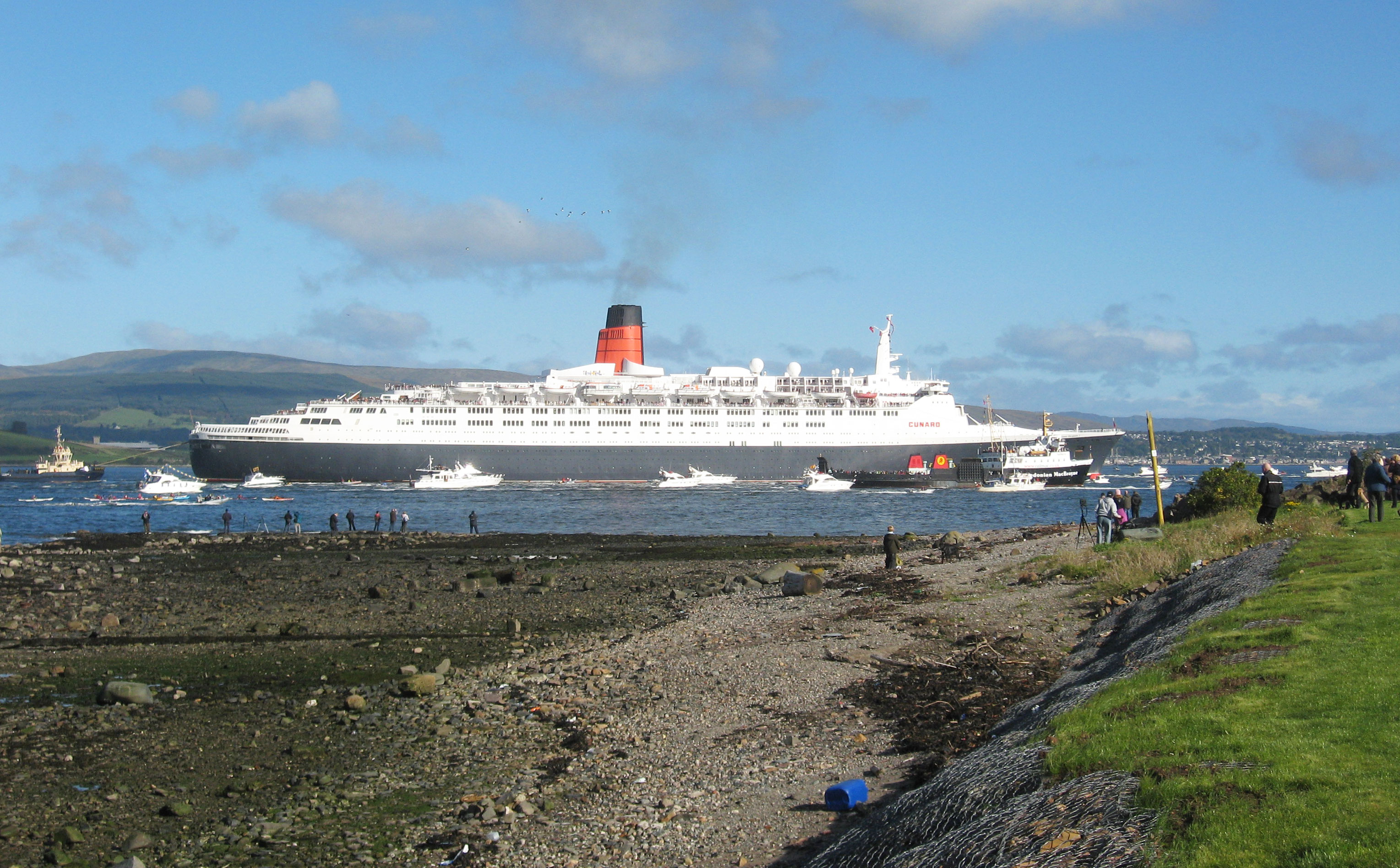 RMS Queen Elizabeth 2 on her last visit to the Clyde where she was built. Caledonian MacBrayne ferry MV Saturn in the foreground.